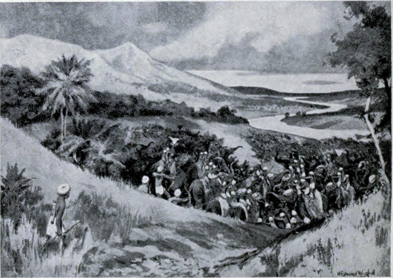 Singhales ride into Southern India. From Hutchinson's story of the nations, containing the Egyptians, the Chinese, India, the Babylonian nation, the Hittites, the Assyrians, the Phoenicians and the Carthaginians, the Phrygians, the Lydians, and other nations of Asia Minor.